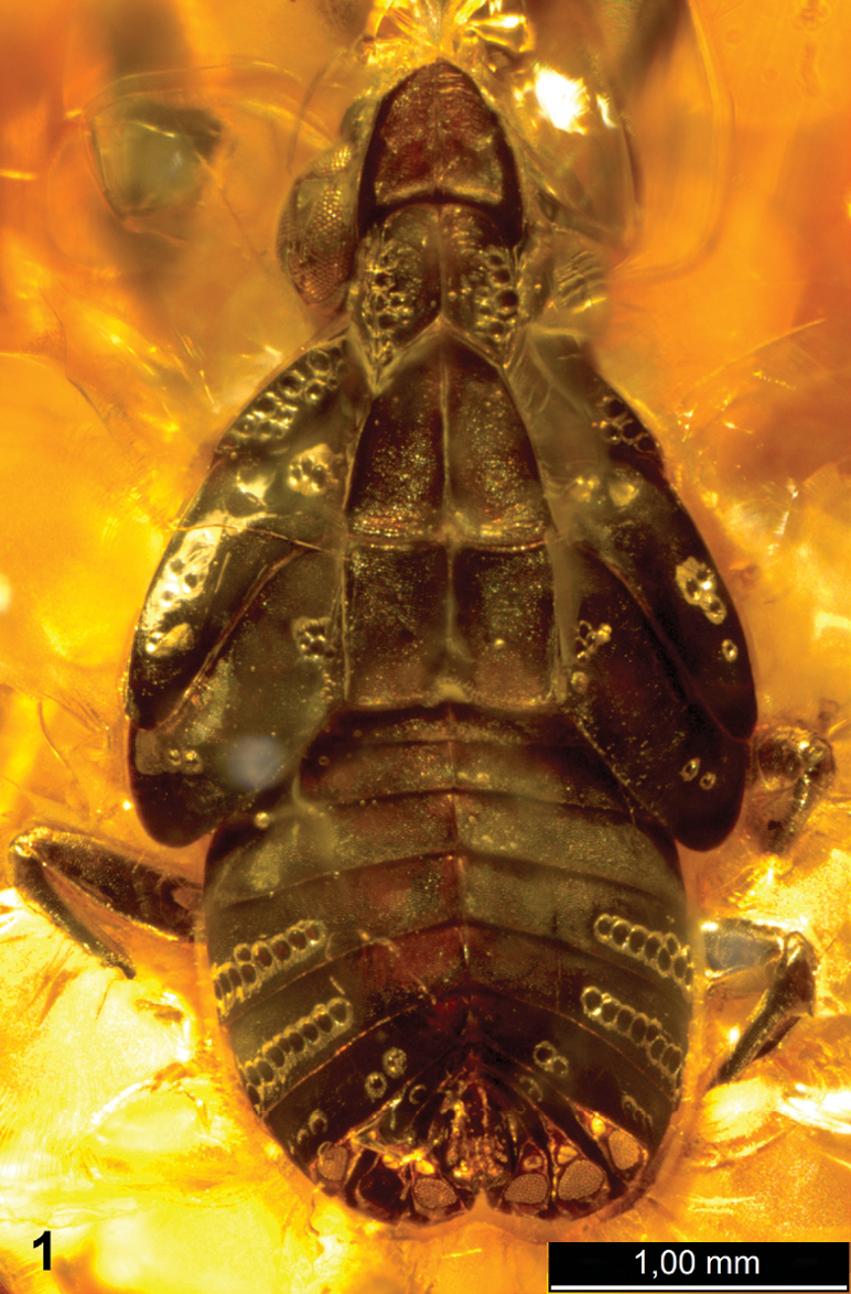 Alicodoxa rasnitsyni gen. et sp. n. (Orthopagini), 4th instar nymph, Rovno amber: 1 dorsal view